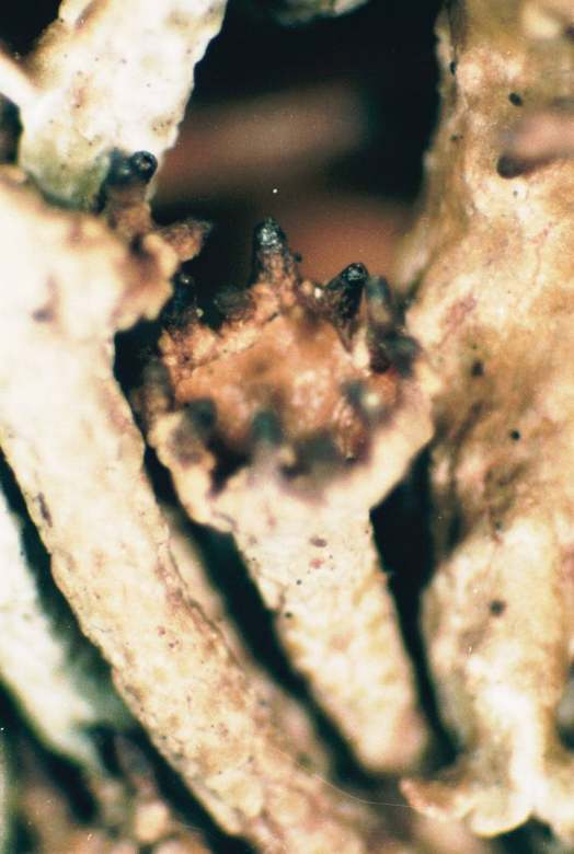 Cladonia crispata (Ach.) Flot., 1839 (photograph of a herbarium specimen taken through a dissecting microscope (x24) showing podetial cups with black pycnidia on the margins) Growing on soil in open Jack Pine woods near Crumley Creek off US-68, Cheboygan County, Michigan, USA; collected and identified by Richard E. Riefner (No. 81-454, 14 Jul 1981); specimen is now in the Lichen Herbarium of the New York Botanical Garden.